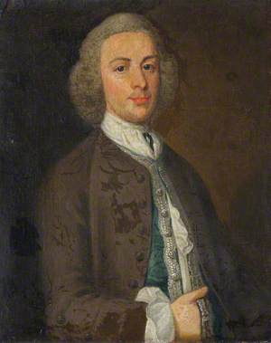 Sir Jacob Downing (d.1764), 4th Bt; by Henry Pickering